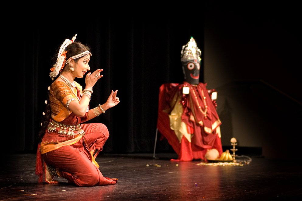 Nandini Ghosal performing an Indian classical dance: Odissi at the Coffman Memorial Union in the University.